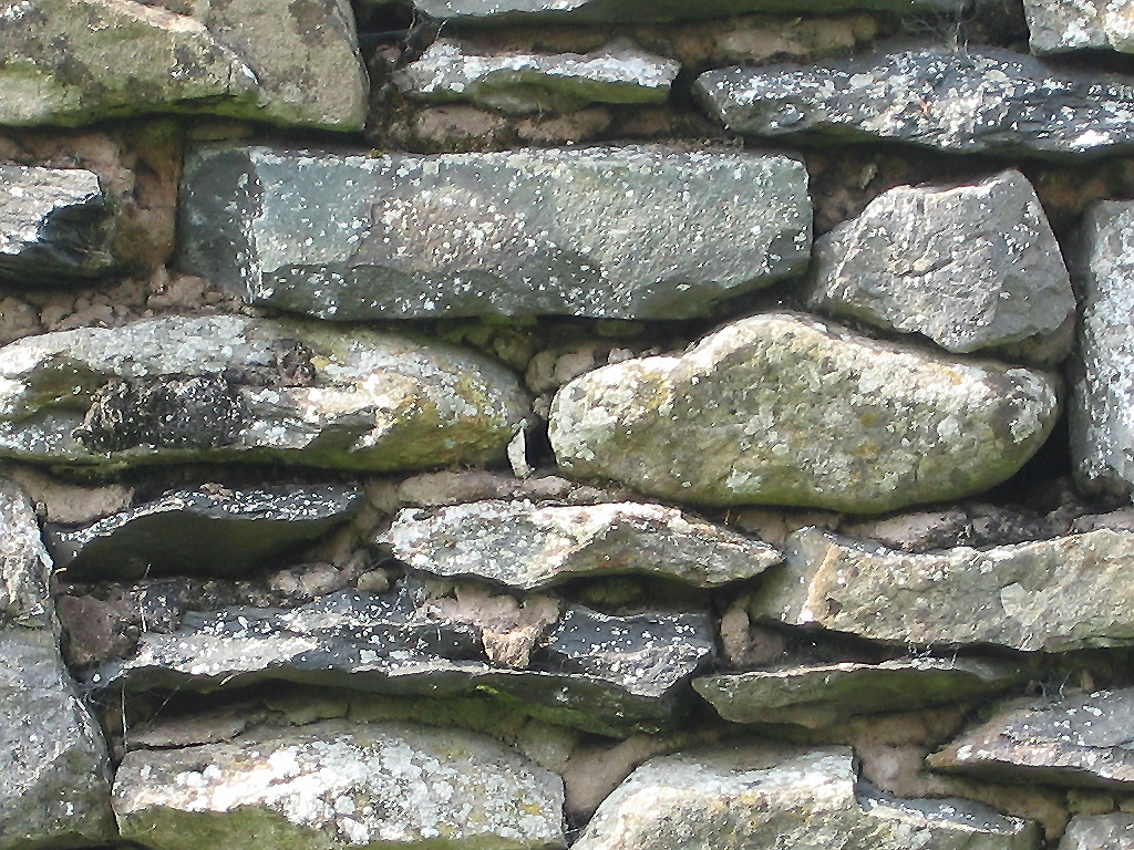 Dry stone wall